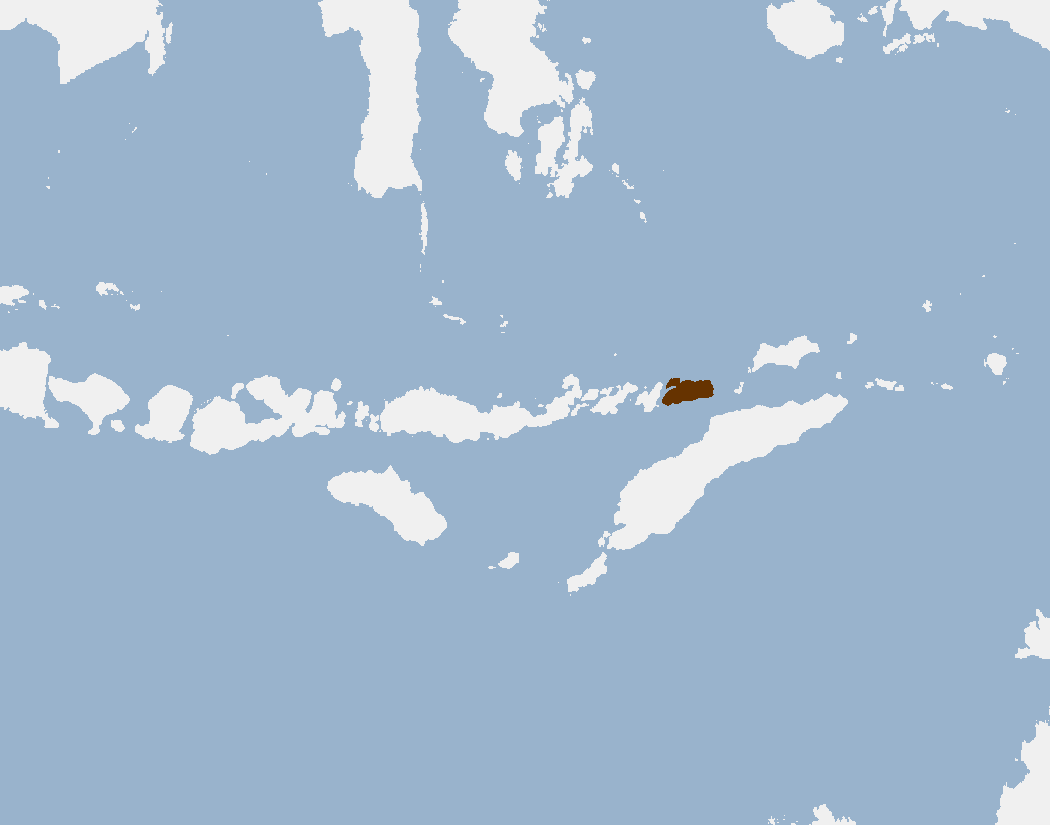 Geographical distribution of Otomops johnstonei according to Museum specimens.